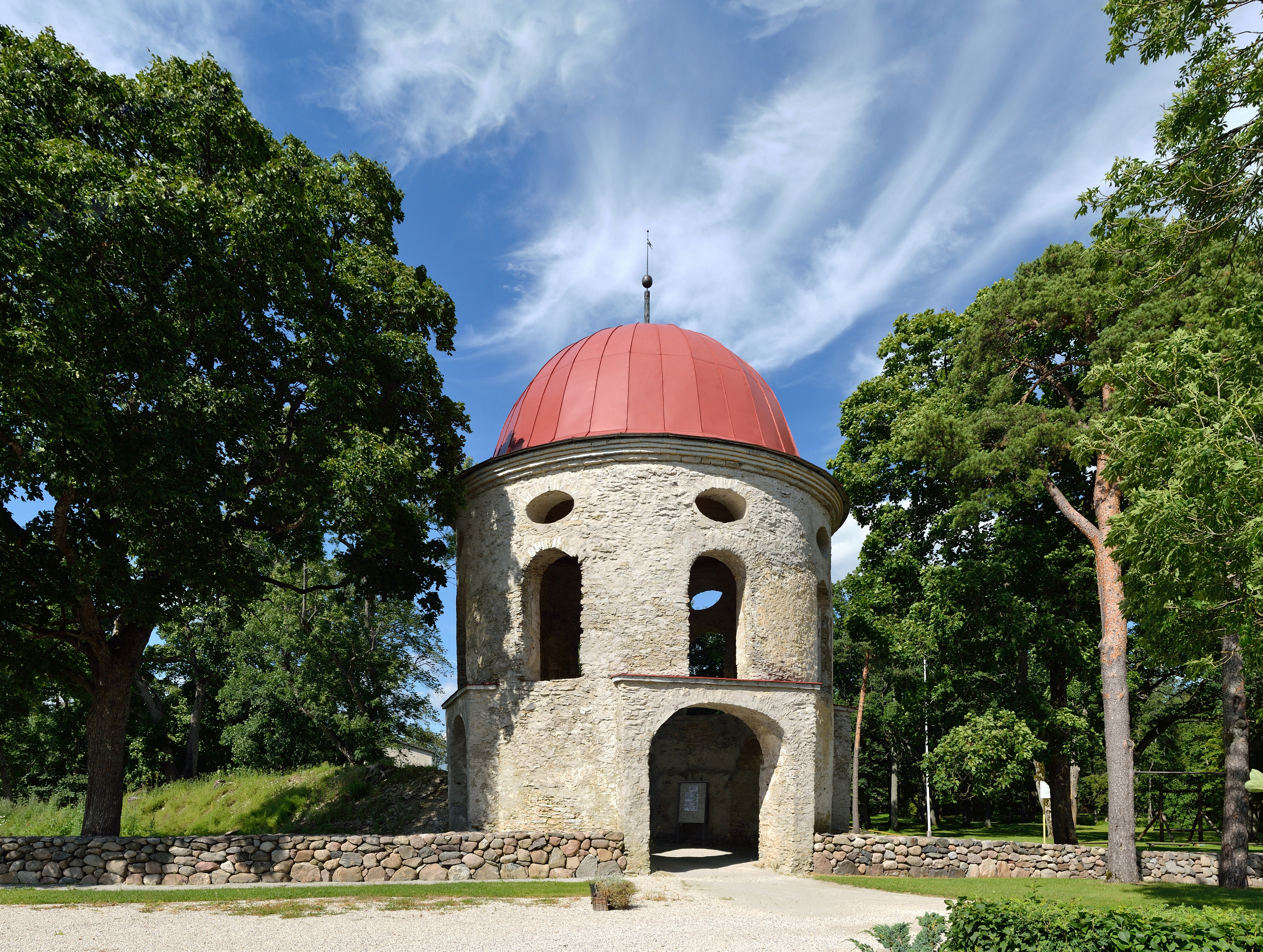 Sutlema manor gatetower, built in the second half of the 18. century